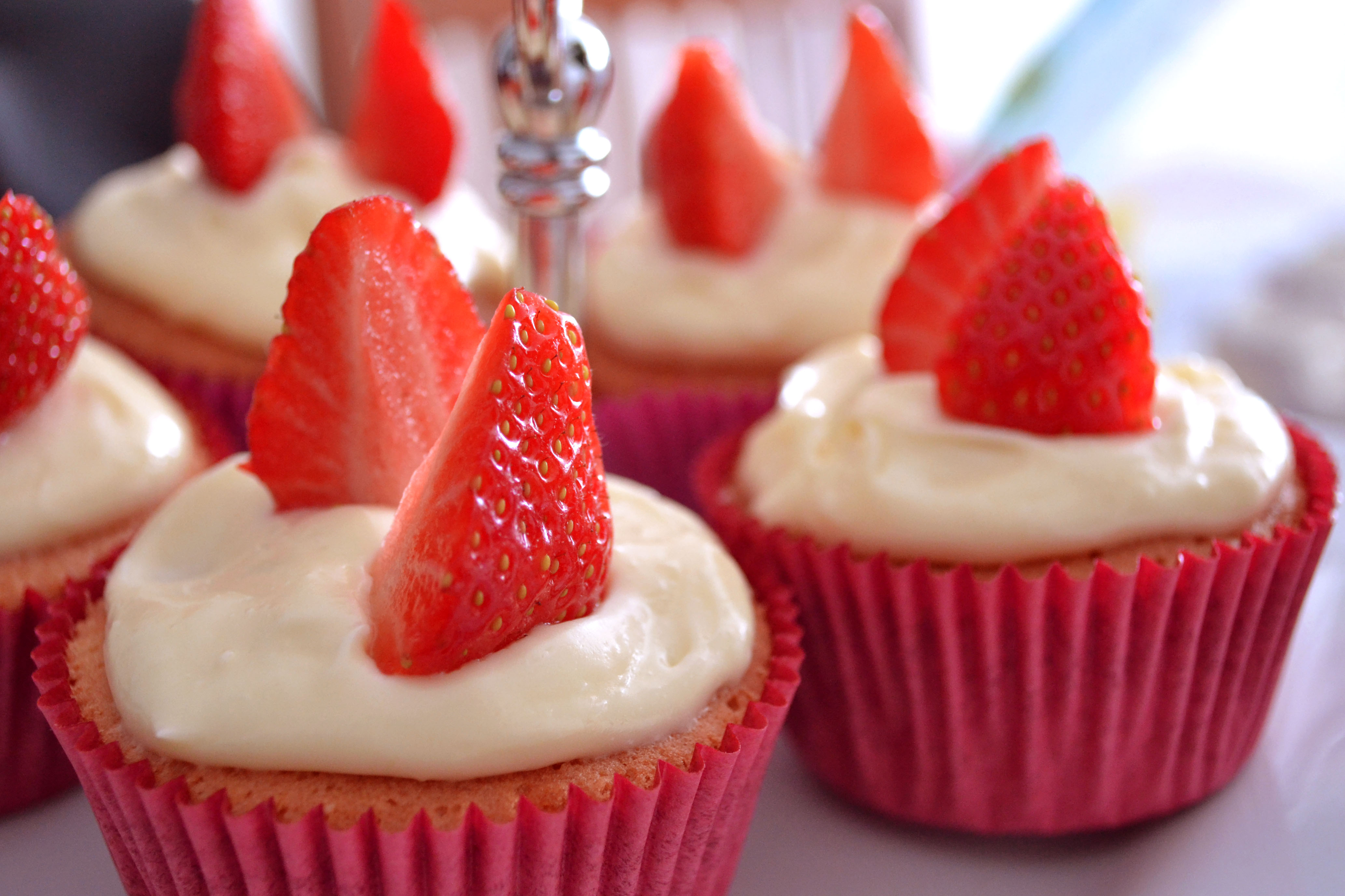 First homemade cupcakes :) Tips or suggestions are very much welcome.